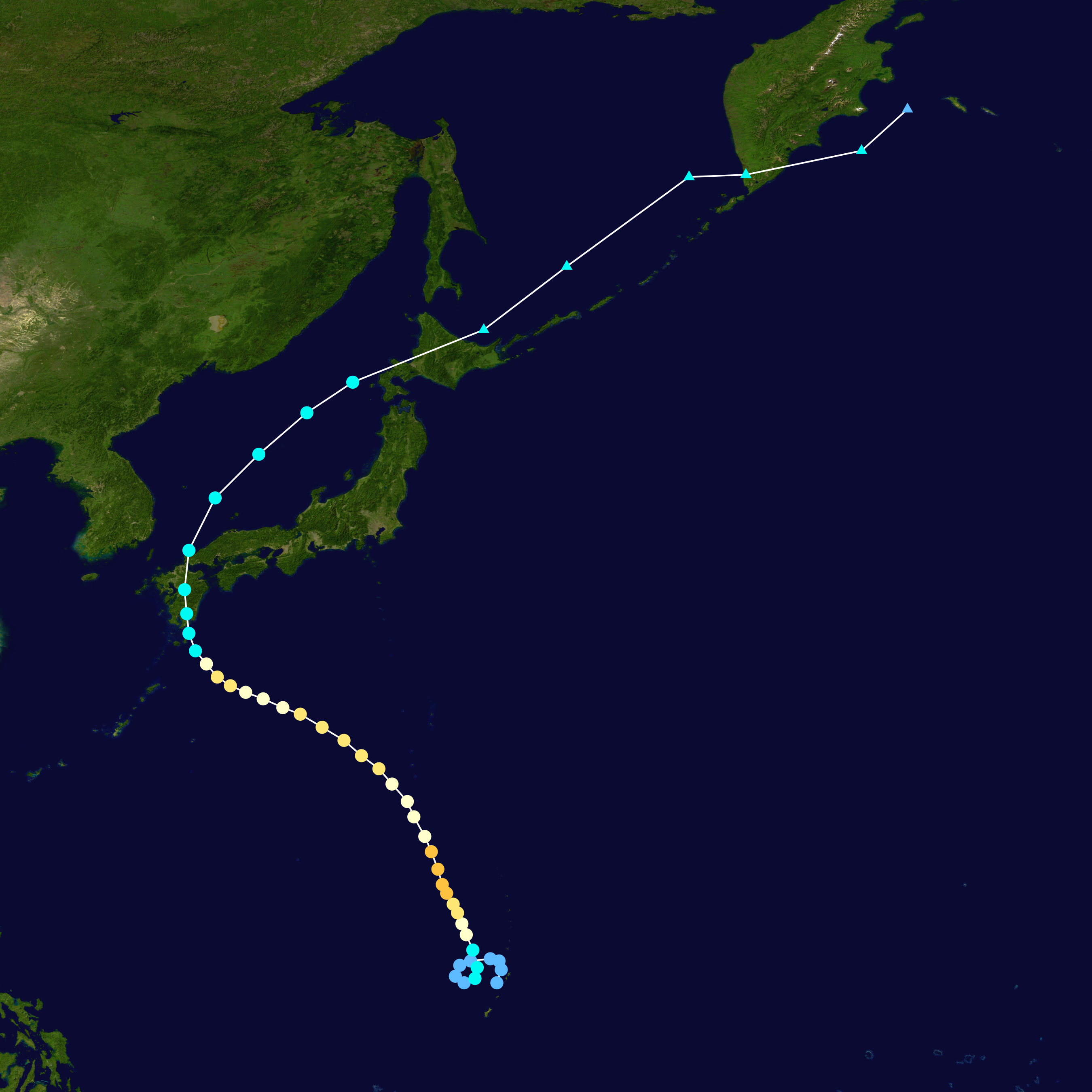 Track map of Typhoon Kezia of the 1950 Pacific typhoon season. The points show the location of the storm at 6-hour intervals. The colour represents the storm's maximum sustained wind speeds as classified in the Saffir–Simpson scale (see below), and the shape of the data points represent the nature of the storm, according to the legend below. Saffir–Simpson scale Tropical depression≤38 mph≤62 km/h Category 3111–129 mph178–208 km/h Tropical storm39–73 mph63–118 km/h Category 4130–156 mph209–251 km/h Category 174–95 mph119–153 km/h Category 5≥157 mph≥252 km/h Category 296–110 mph154–177 km/h Unknown Storm type Tropical cyclone Subtropical cyclone Extratropical cyclone / Remnant low / Tropical disturbance